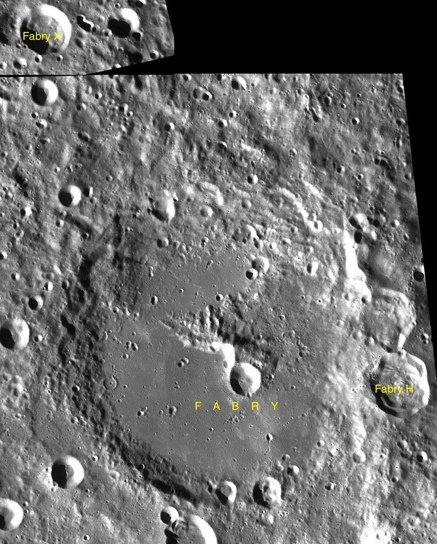 Parts of the charts LAC-15, LAC-29 used for the presentation